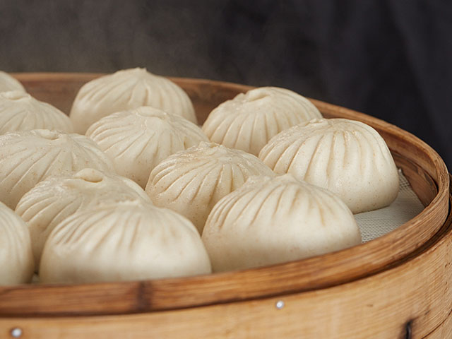 Bao inside a traditional steamer